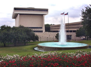 Johnson Presidential Library Austin, Texas, 1971. Lyndon B. Johnson Presidential Library - Austin, TX.